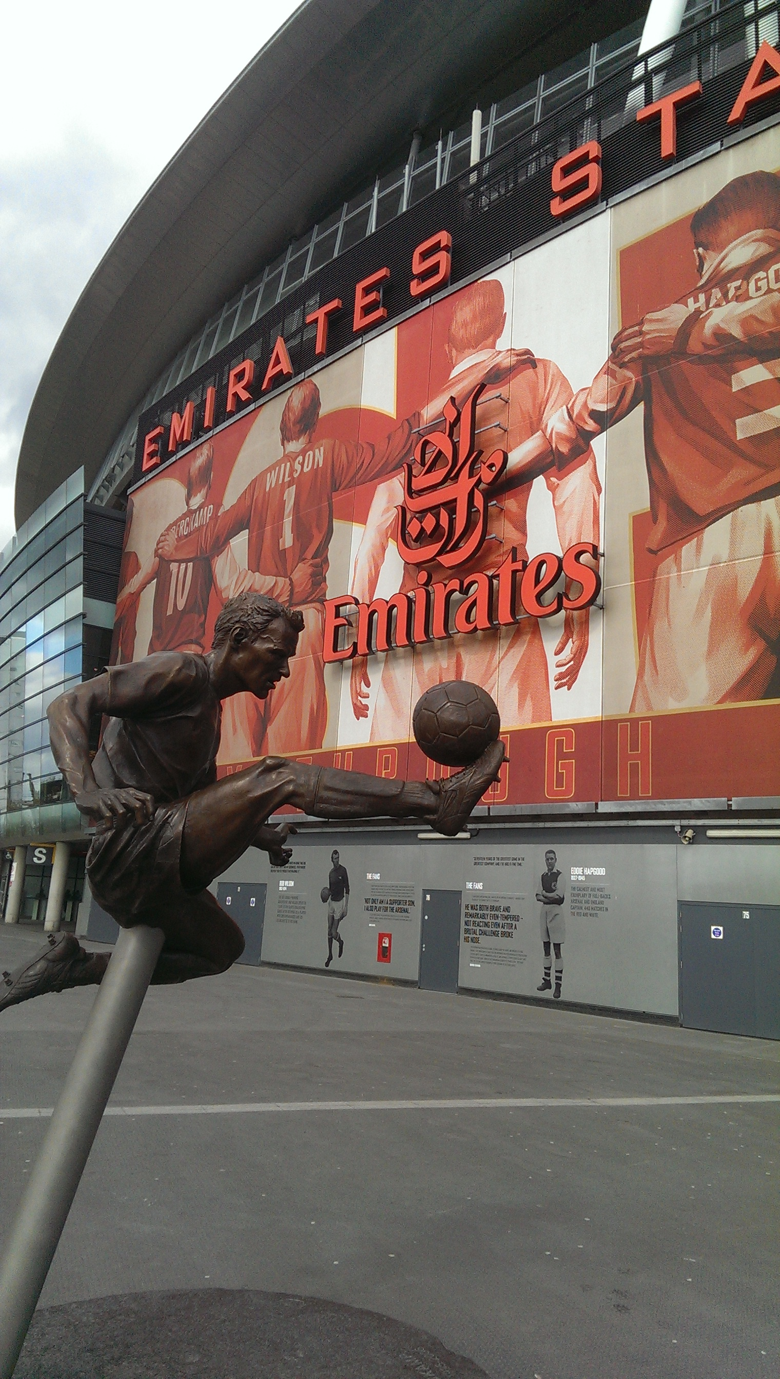 The Statue of One of the invincibles.